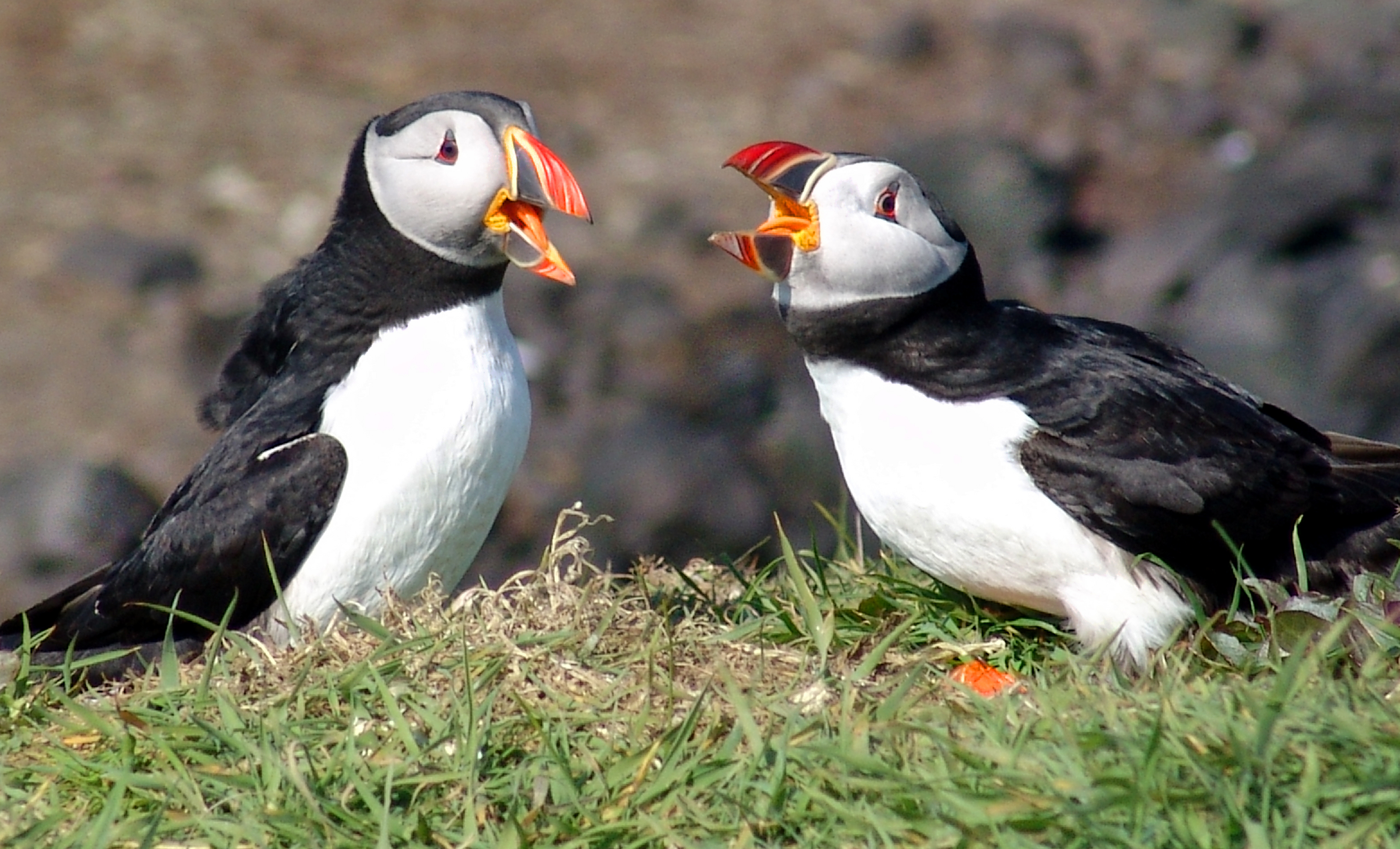 Puffins at Lunga, Treshnish Isles, Scotland